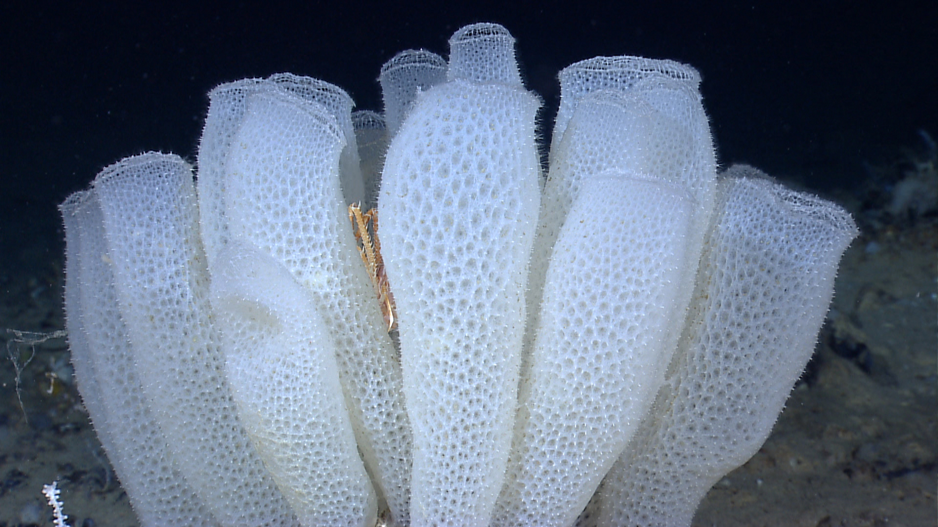 A spectacular group of Venus flower basket glass sponges (Euplectella aspergillum) glass sponges with a squat lobster in the middle.